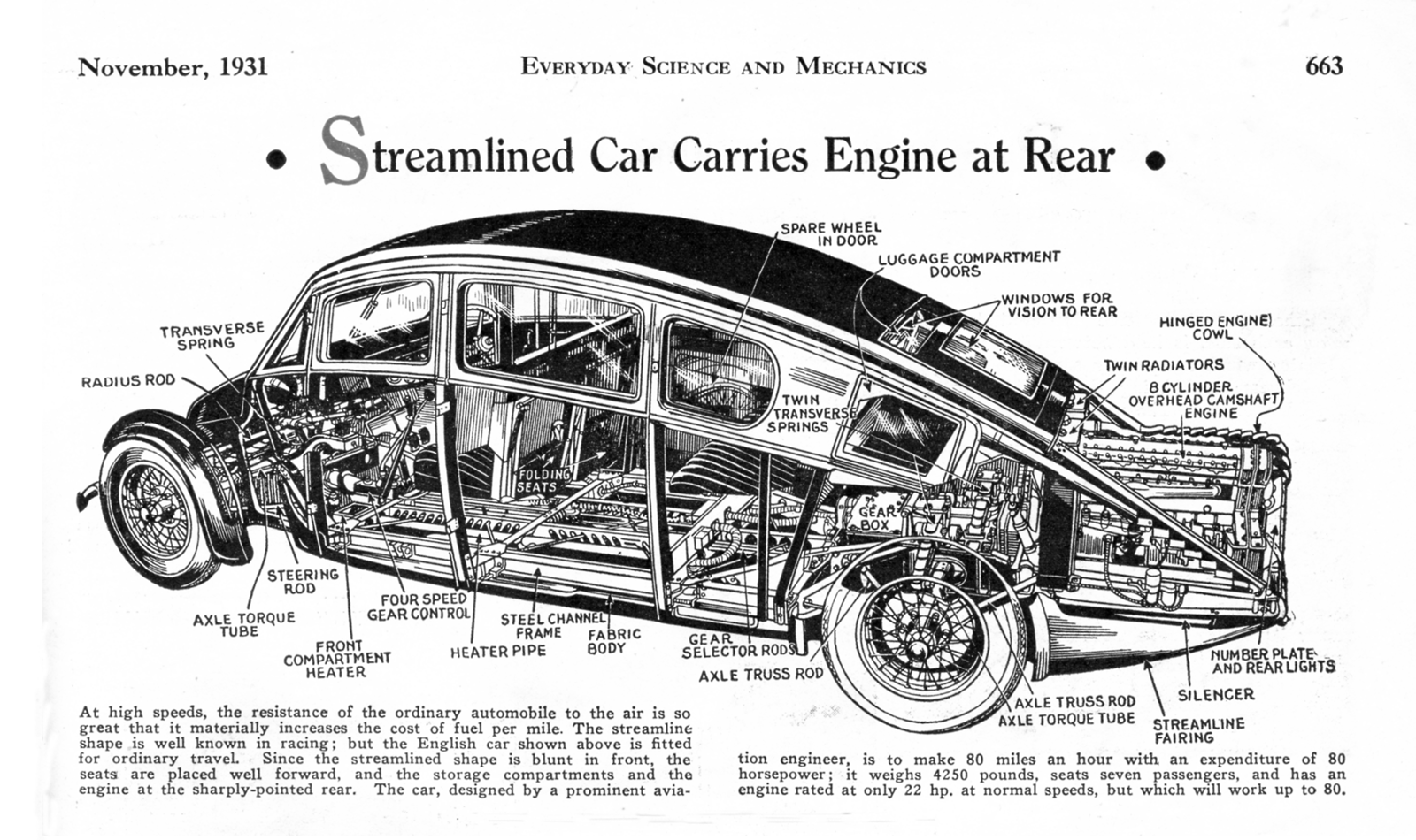 Streamline Car Carries Engine at Rear. The Burney car by Streamline Cars Ltd. Designed by Sir Charles Dennistoun Burney in 1927. See en: Streamline Cars Ltd Caption: "At high speeds, the resistance of the ordinary automobile to the air is so great that it materially increases the cost of fuel per mile. The streamline shape is well known in racing; but the English car shown above is fitted for ordinary travel Since the streamlined shape is blunt in front, the seats are placed well forward, and the storage compartments and the engine at the sharply-pointed rear. The car, designed by a prominent aviation engineer, is to make 80 miles an hour with an expenditure of 80 horsepower; it weighs 4250 pounds, seats seven passengers, and has an engine rated at only 22 hp. at normal speeds, but which will work up to 80." Everyday Science and Mechanics, November 1931, Volume 2, Number 12. A Gernsback Publication, New York NY. Published by Publishing Company of America, Hugo Gernsback, President Hugo Gernsback, Editor-in-Chief; C. P. Mason, Associate Editor; Clyde Fitch, Associate Editor; Frank R. Paul, Art Director In 1929, Hugo Gernsback lost control of his Experimenter Publishing Company and immediately started a set of competing magazines. This magazine started as Everyday Mechanics and in October 1931 it was renamed Everyday Science and Mechanics. In early 1937 the name was shortened to Science and Mechanics. This 8.5 by 11.5 inch (21.6 by 29.2 cm) magazine has 96 pages. The magazine page numbers were on a volume bases. This issue has pages 634 to 730. This is the top half of page 663.